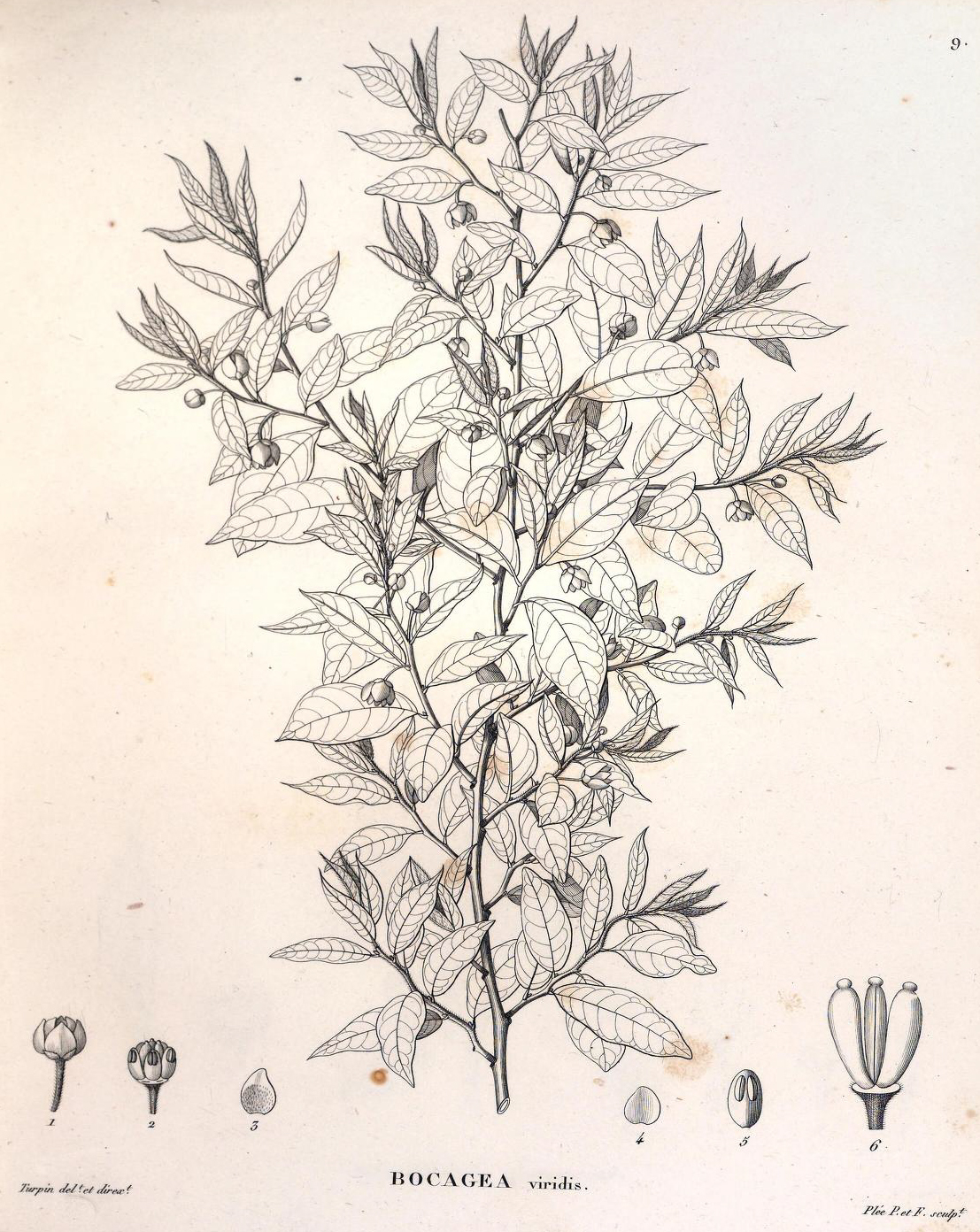 Black and white botanical illustration of Bocagea viridis showing a branch with leaves and flowers as well as floral parts.